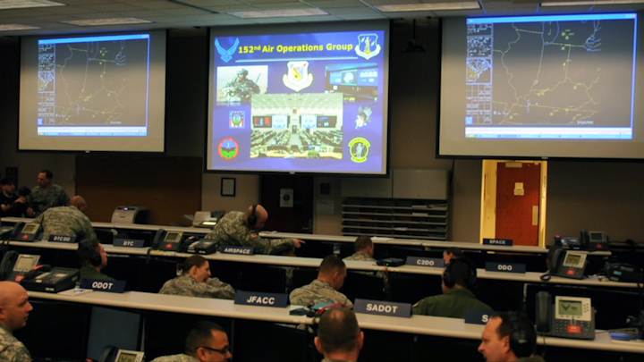 Airmen of the New York Air National Guard’s 152nd Air Operations Group man their stations during Virtual Flag, a computer wargame the unit participated in Feb. 18-26 from Hancock Field Air National Guard Base. The computer hookup allowed the air war planners of the 152nd to interact with other Air Force units around the country and in Europe. ( U.S. Air National Guard photo by Master Sgt. Eric Miller/ Released)